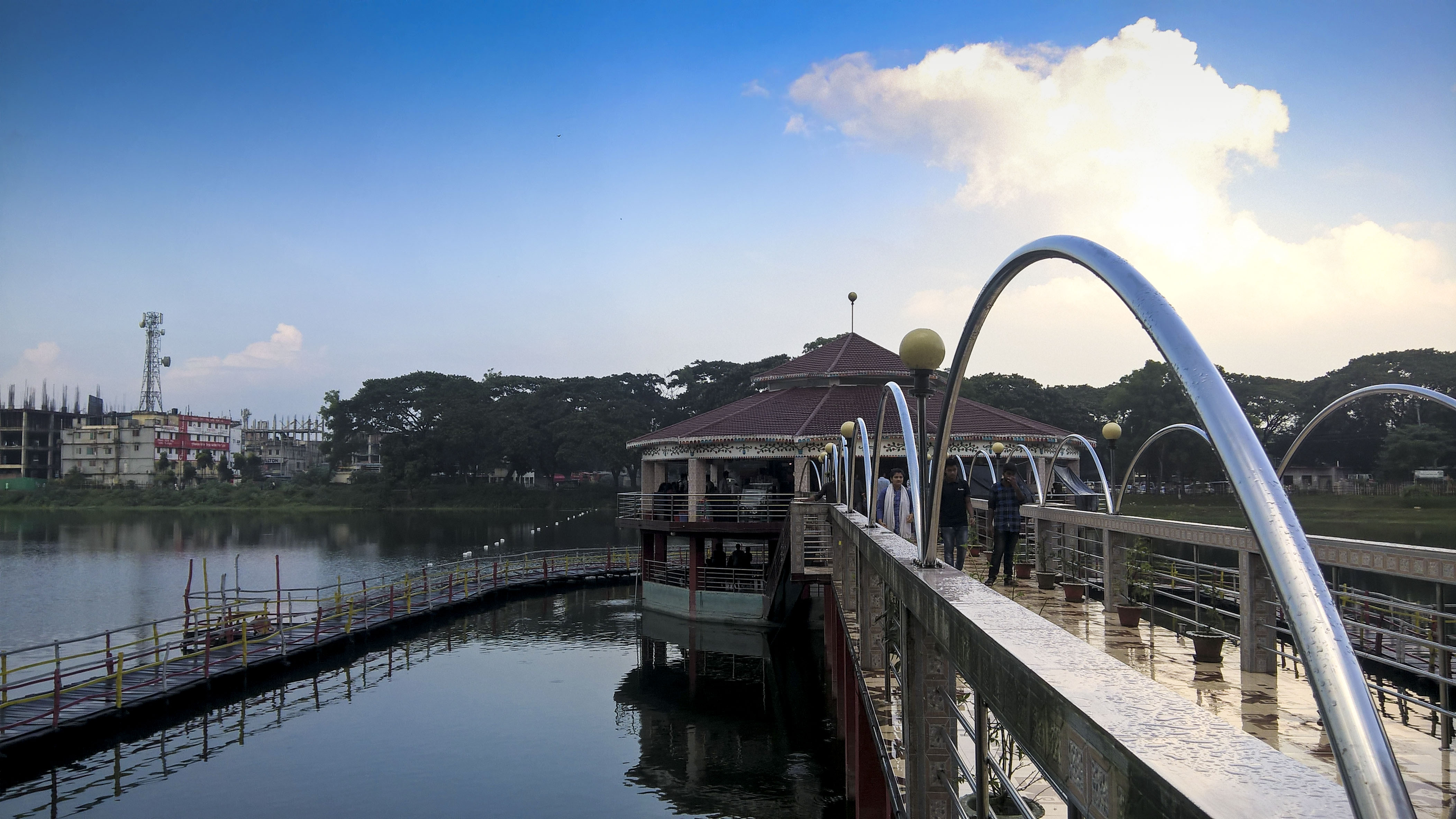 The DC lake is situated in tangail city. Its very closer to the new bus stand of Tangail. You will get both natural beauty and nice architecture work of different animal here.